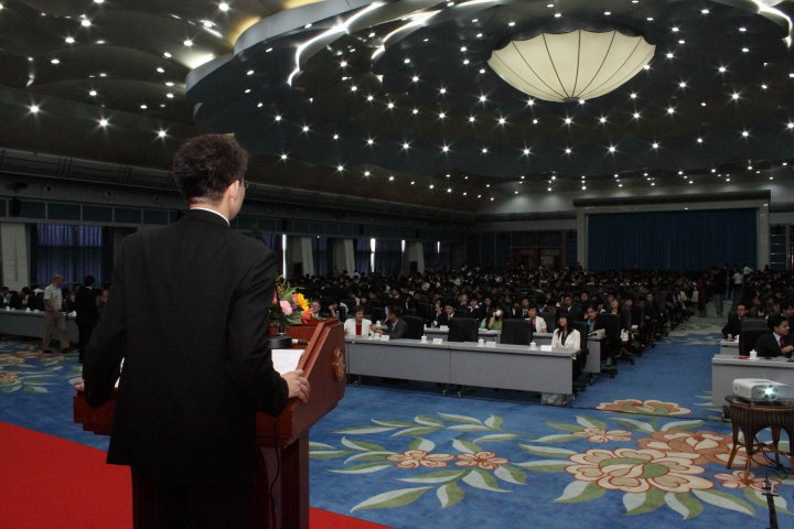 WEMUN Expo 2010 in Action